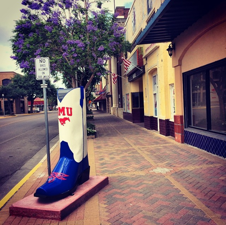 Mercedes, Texas boots